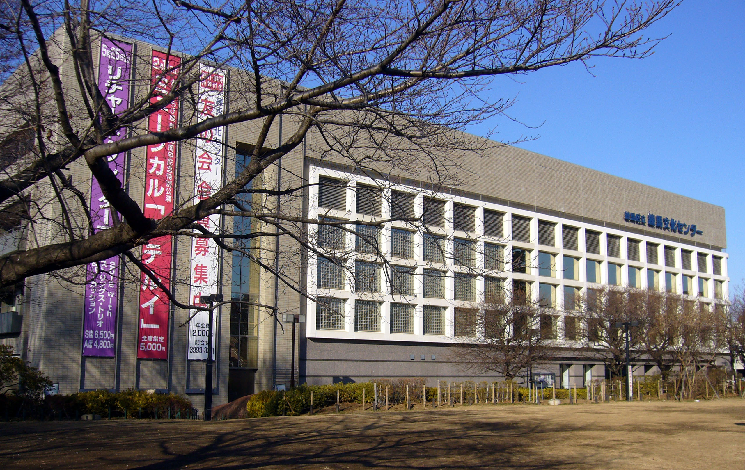 Nerima Bunka Center (Japanese concert hall)